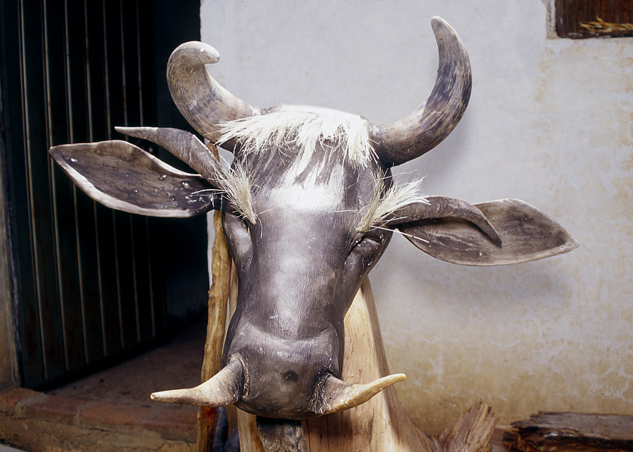 Bull Mask by Isidoro Cruz Hernandez of San Martin, Oaxaca